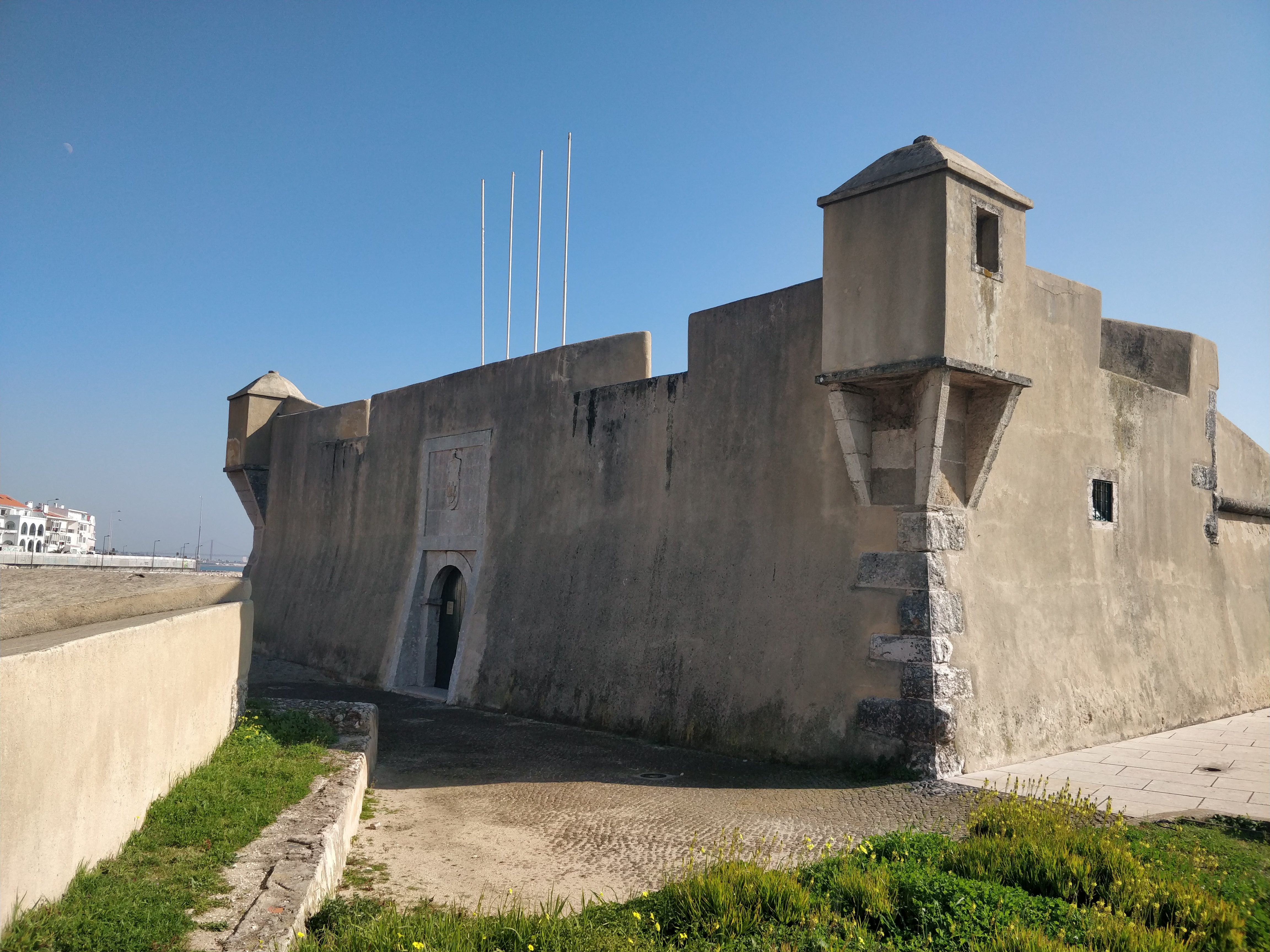 View of the Forte de São Bruno de Caxias on the Tiber estuary near Lisbon